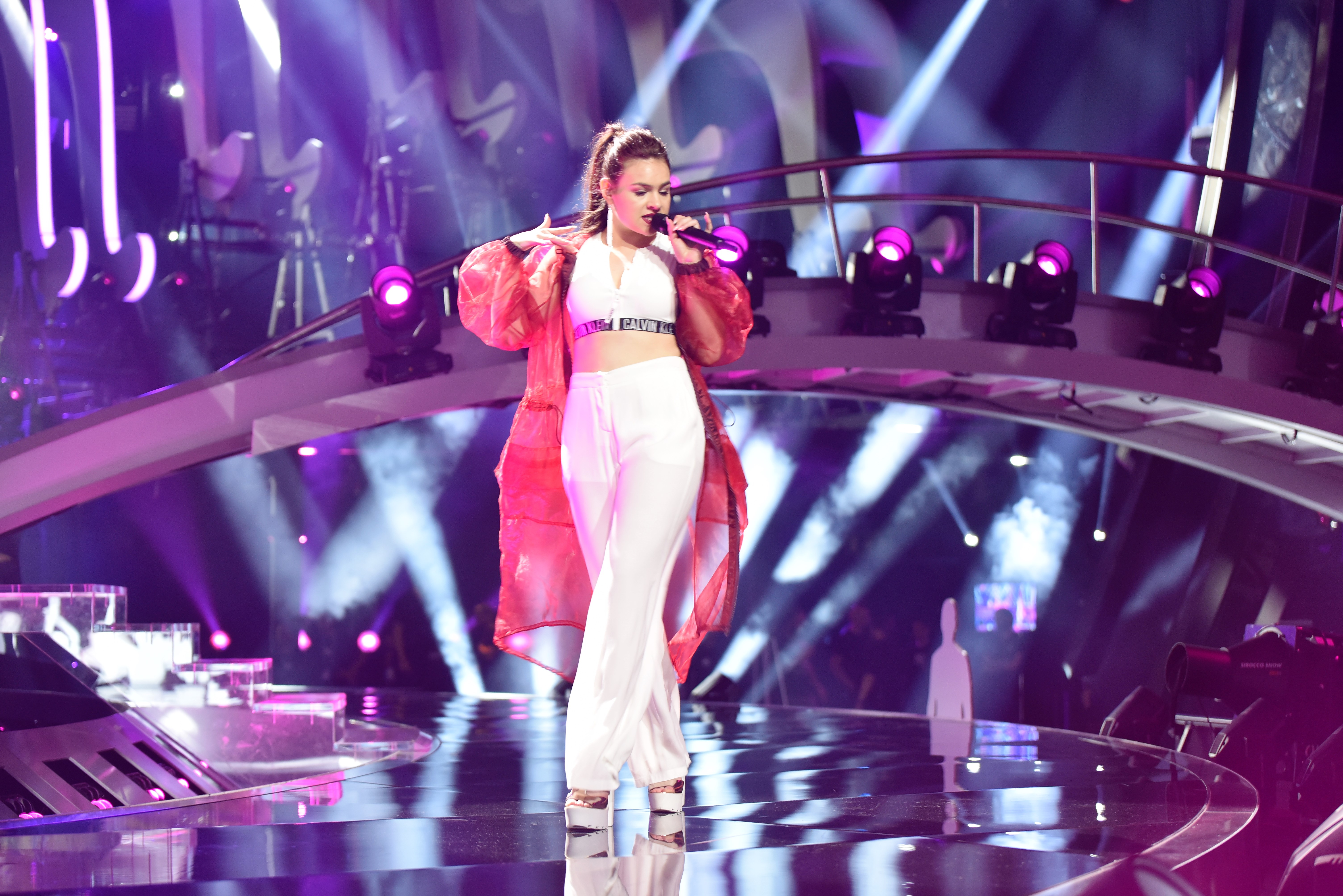 Altice Arena Eurovision Song Contest 2018, Lisbon